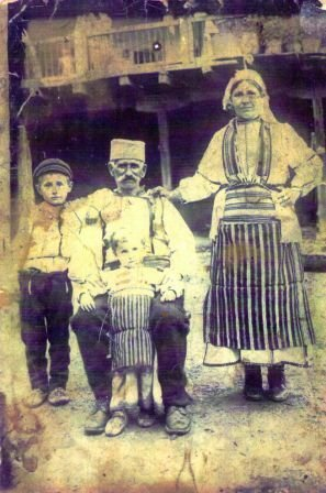 family from Staro Selo, Macedonia